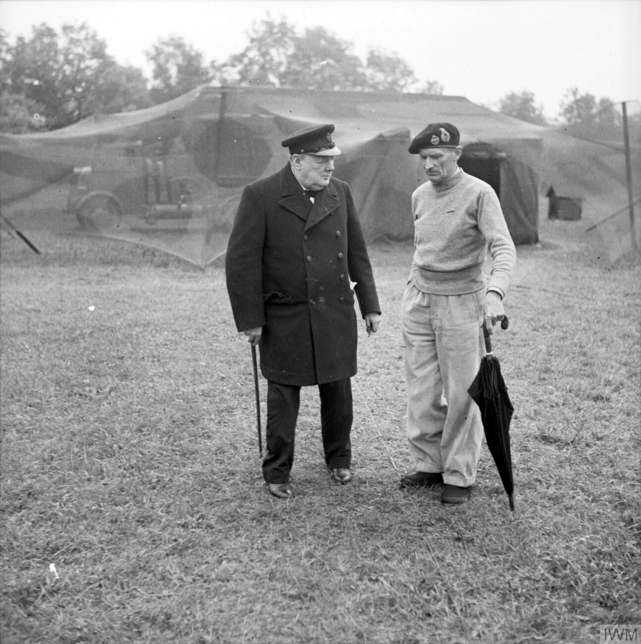 The British Army in Normandy 1944 Winston Churchill with General Sir Bernard Montgomery at the latter's HQ, 21 July 1944.